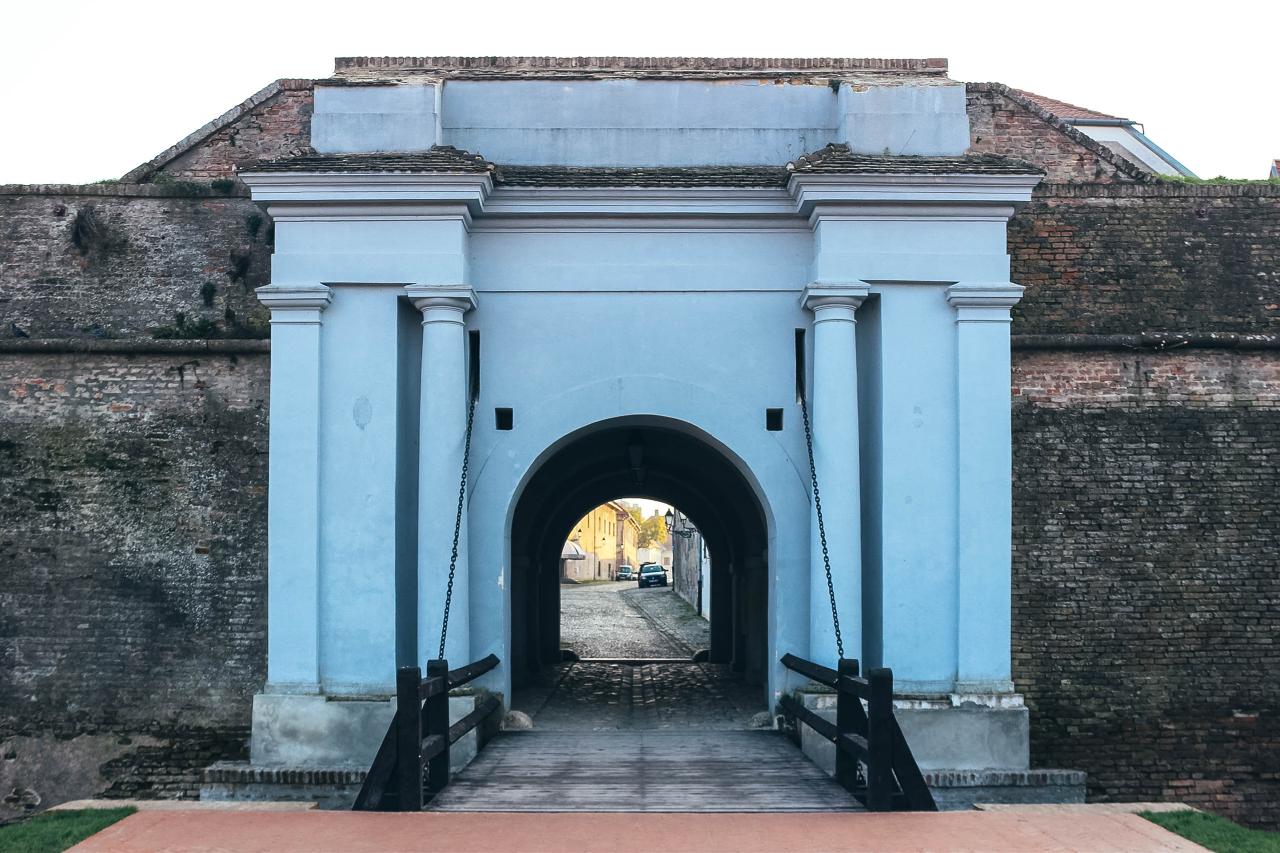 Building